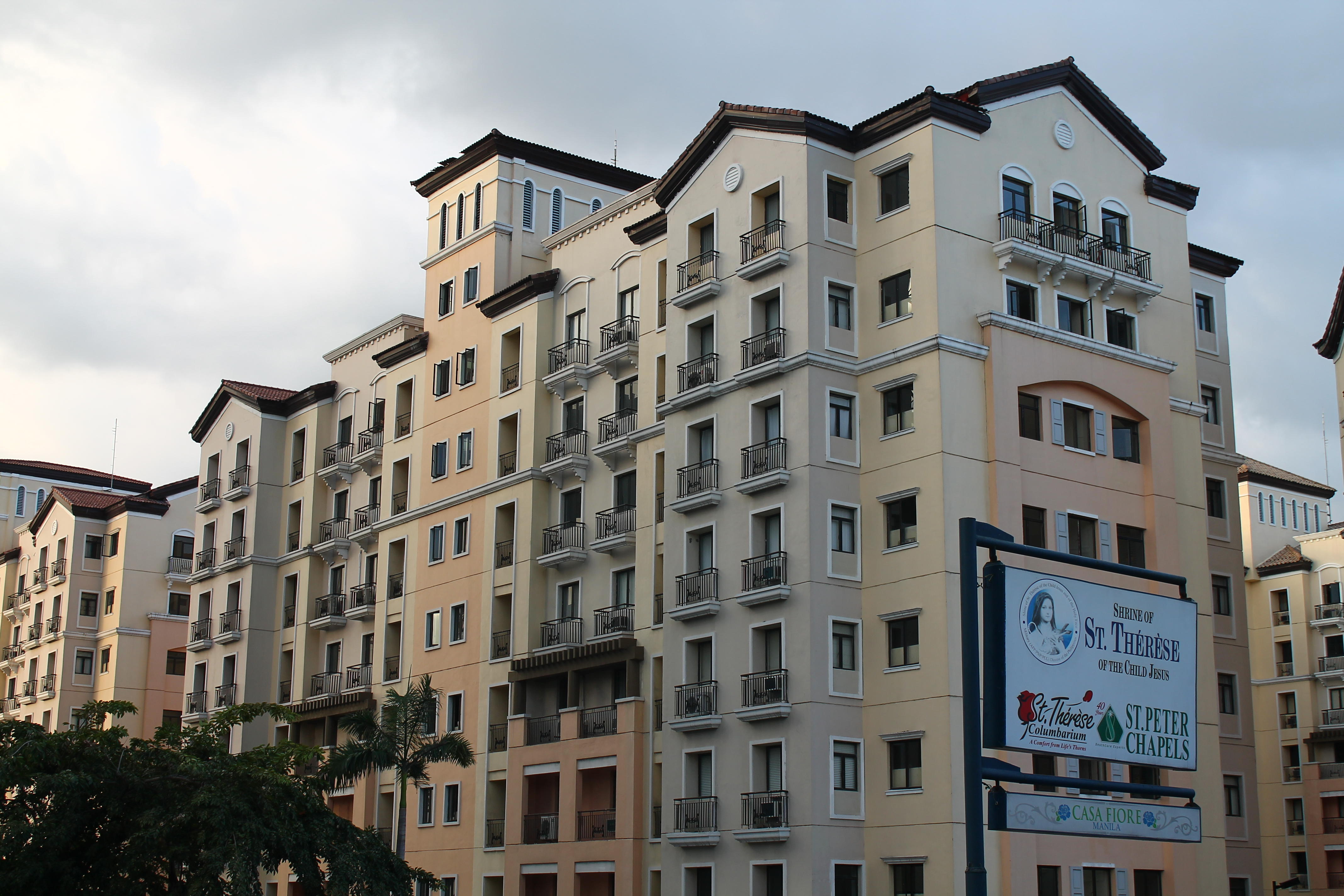 A residential unit in Newport City, Pasay